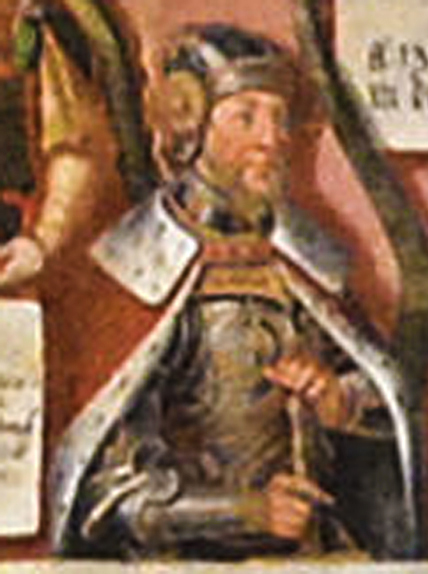 Barnim III of Pomerania